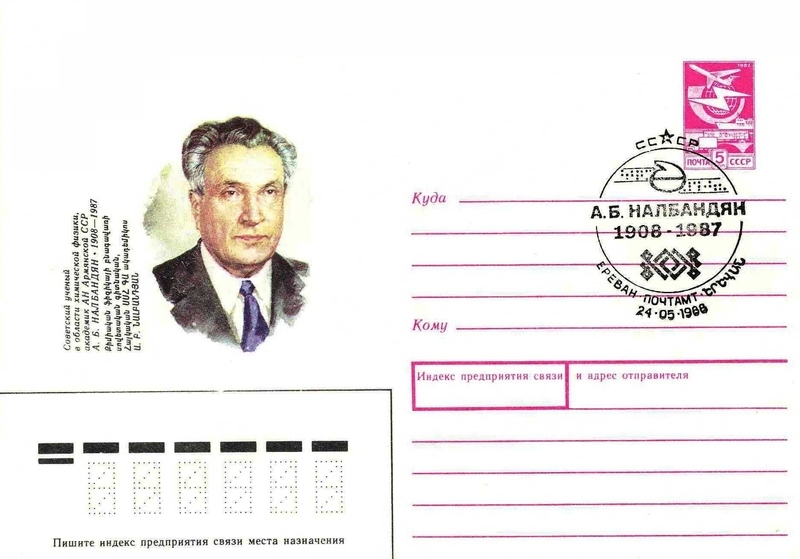 1988 Soviet postal cover with portrait